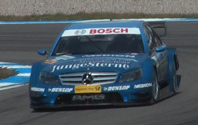 Maro Engel driving for Mercedes-Benz in the 2008 Deutsche Tourenwagen Masters season.